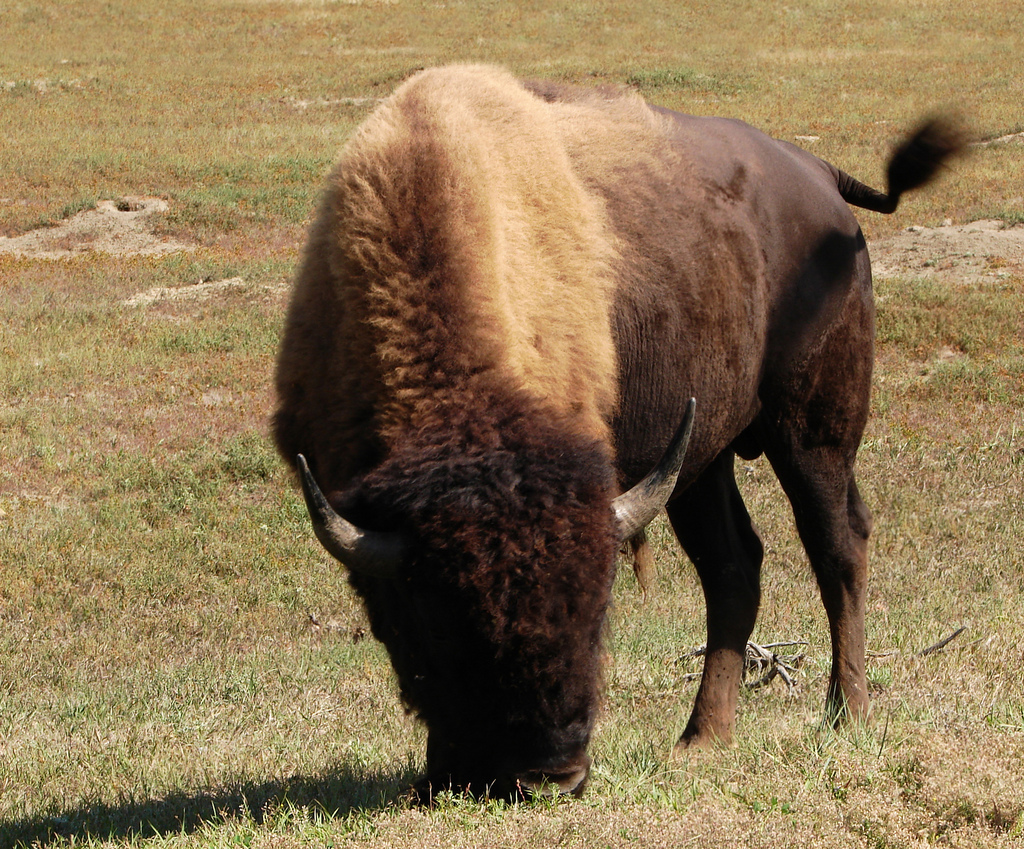 An American plains bison, Bison bison bison, in Theodore Roosevelt National Park in western North Dakota. This one is a dominant bull. Due to morphological and genetic similarities between the genera Bison and Bos (cattle), some scientists propose merging Bison into Bos. This is similar to the merging of Bibos (Indian gaur) into Bos, which did occur. For now though, the official genus of bison is still Bison. Bison are the largest land animals in North America, but this is the smaller of the two living subspecies. The American wood bison, B. bison athabascae, is larger and rarer. This is how to tell them apart: Plains bison have woolly hair on the head, while the larger wood bison has shaggier moppy hair. Plains bison have round, hill-shaped humps on their shoulders and wood bison have square, butte-shaped humps. Because of the humps, the tallest point on a plains bison is above the front legs, while on a wood bison it's ahead of the legs. On a plains bison, there is a noticeable difference in color and/or fur length between the cape and the rest of the back; on wood bison it blends together. Plains bison have larger beards, throat manes, and furrier front legs than their larger wood cousins. Plains bison are also native to midland America while wood bison have a smaller range in the northeast. This is the same bison seen here, but I edited out the burs on his face